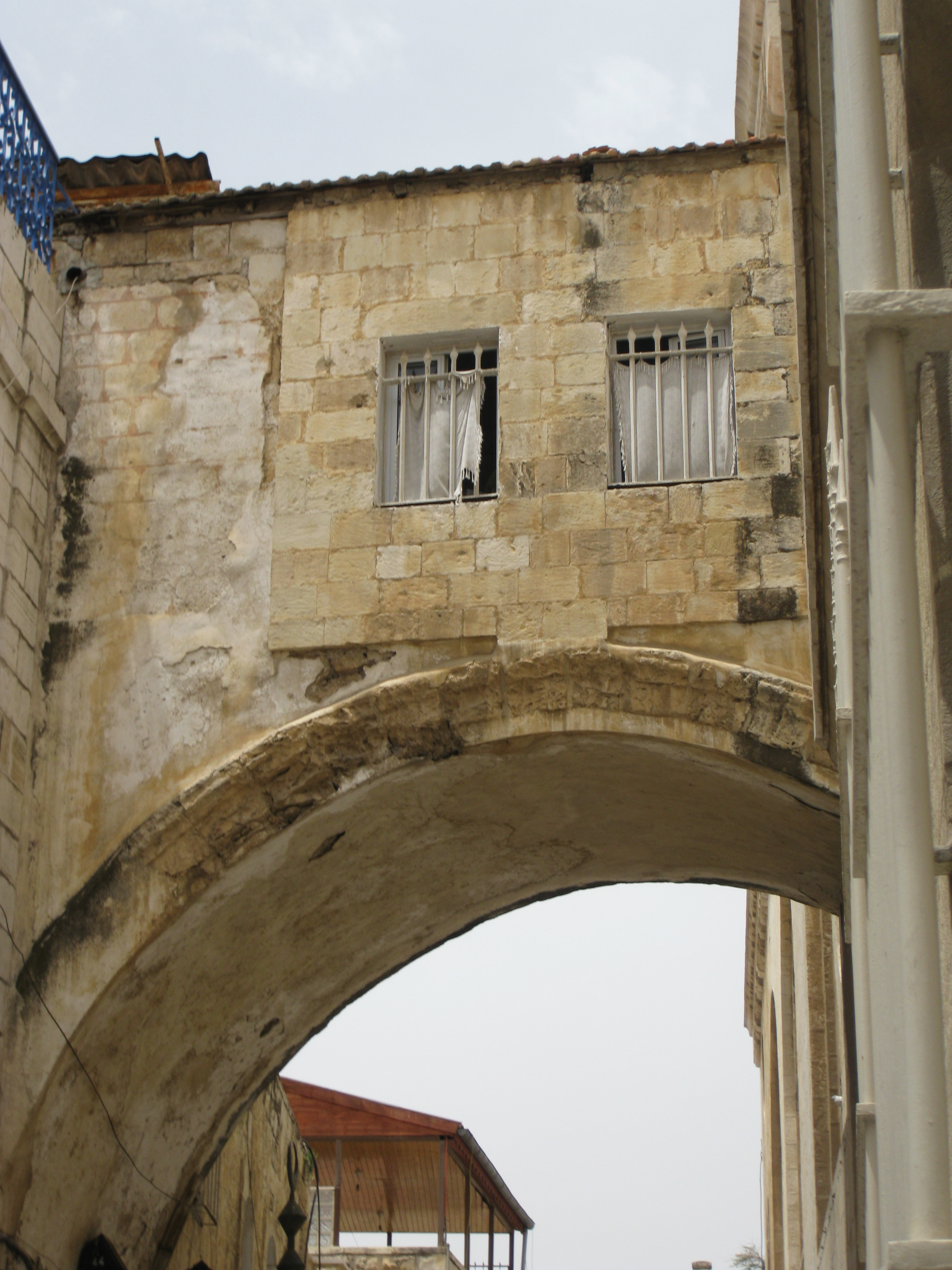 Old Jerusalem, Muslim Quarter - Arch of Ecce Homo